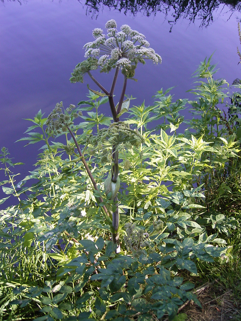 Deze foto toont de Gewone engwortel. Ik nam deze foto op 30 jil 2005 in park het kleine hout in Den Haag. This picture shows Angelica sylvestris. I took this pic on July 30, 2005 in The Hague, Netherlands.